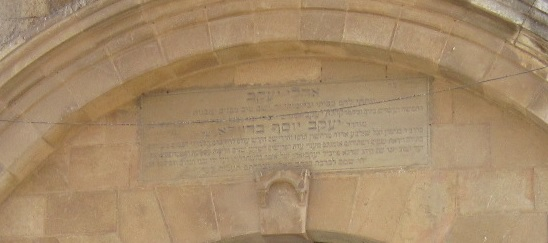 cropped from File:Batei Broida.jpg